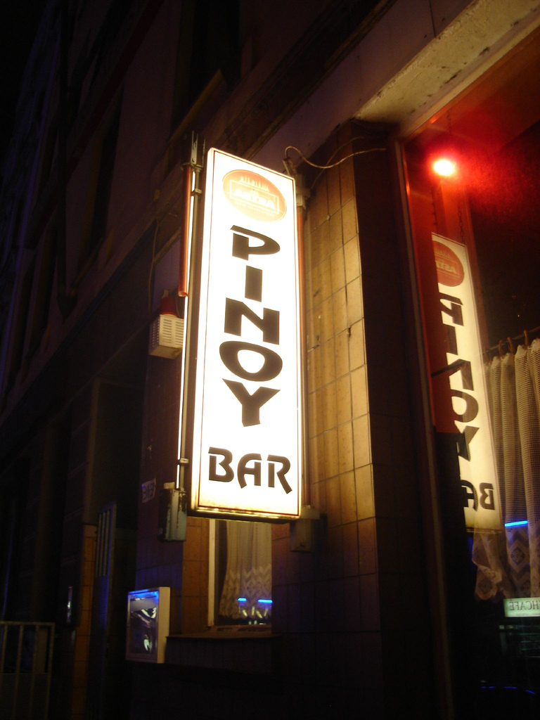 Pinoy Bar in the red light Reeperbahn in Hamburg, Germany.